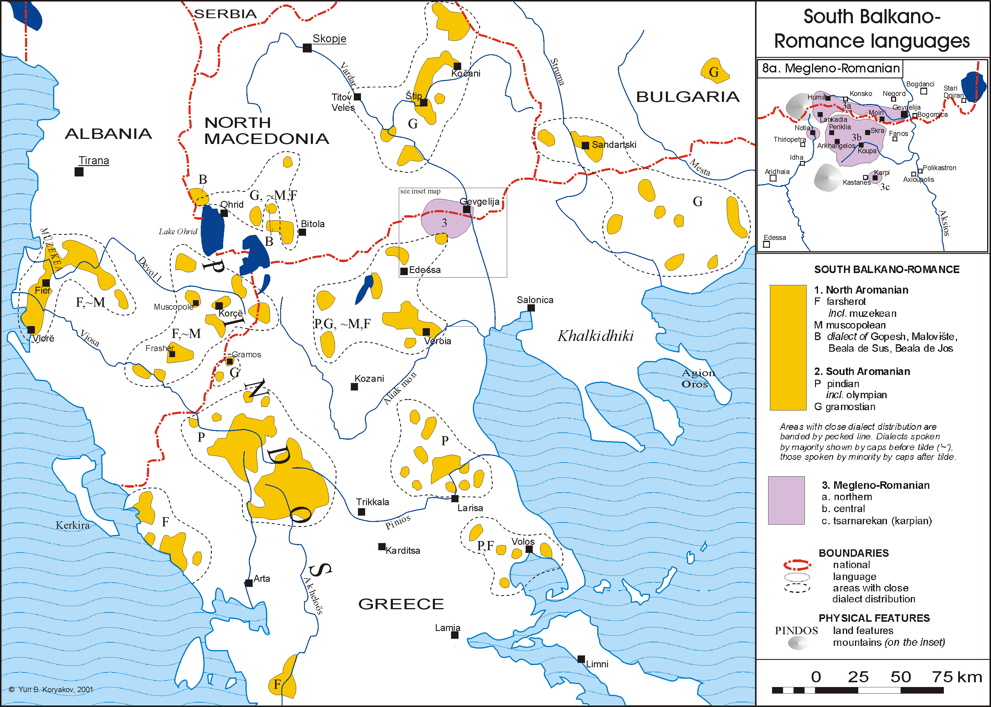 Map of Eastern Romance languages (Aromanian and Meglenite)